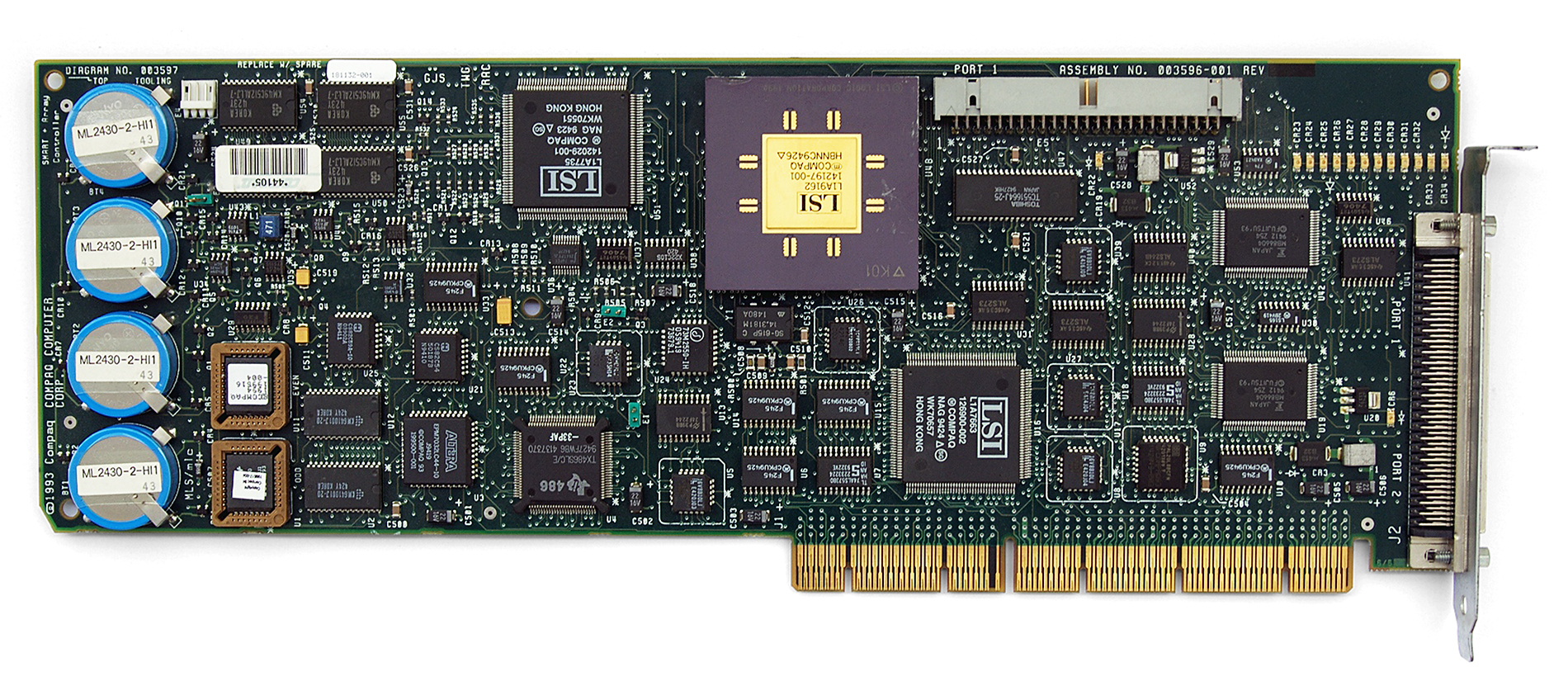 Compaq Smart Array Controller 181132-001, EISA, Dual-Channel SCSI Controller